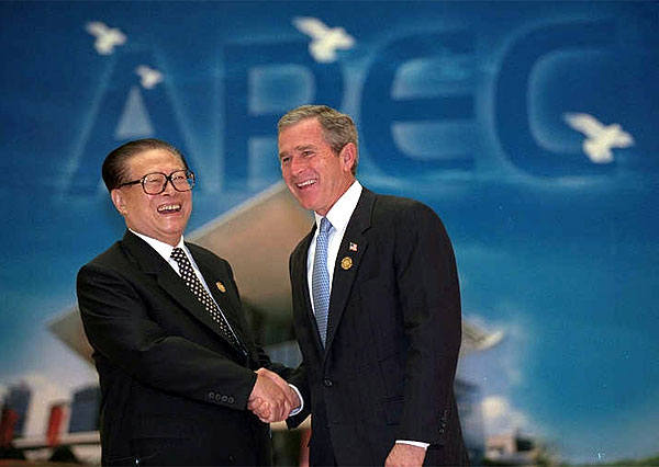 President George W. Bush and Chinese President Jiang Zemin deliver a joint statement to the media in Shanghai, People's Republic of China, Oct. 19.